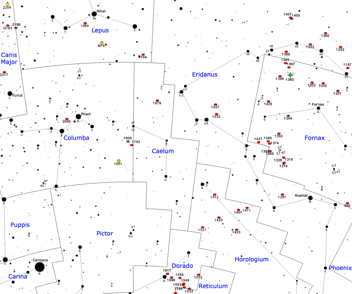 Map of Caelum